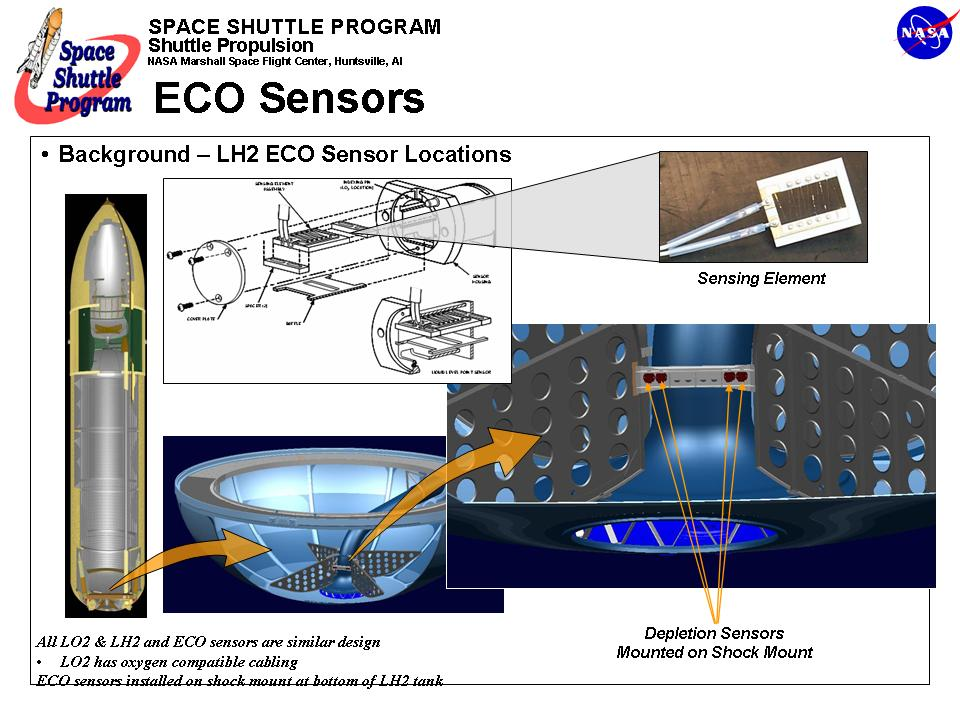 Diagram of the external tank ECO sensors.